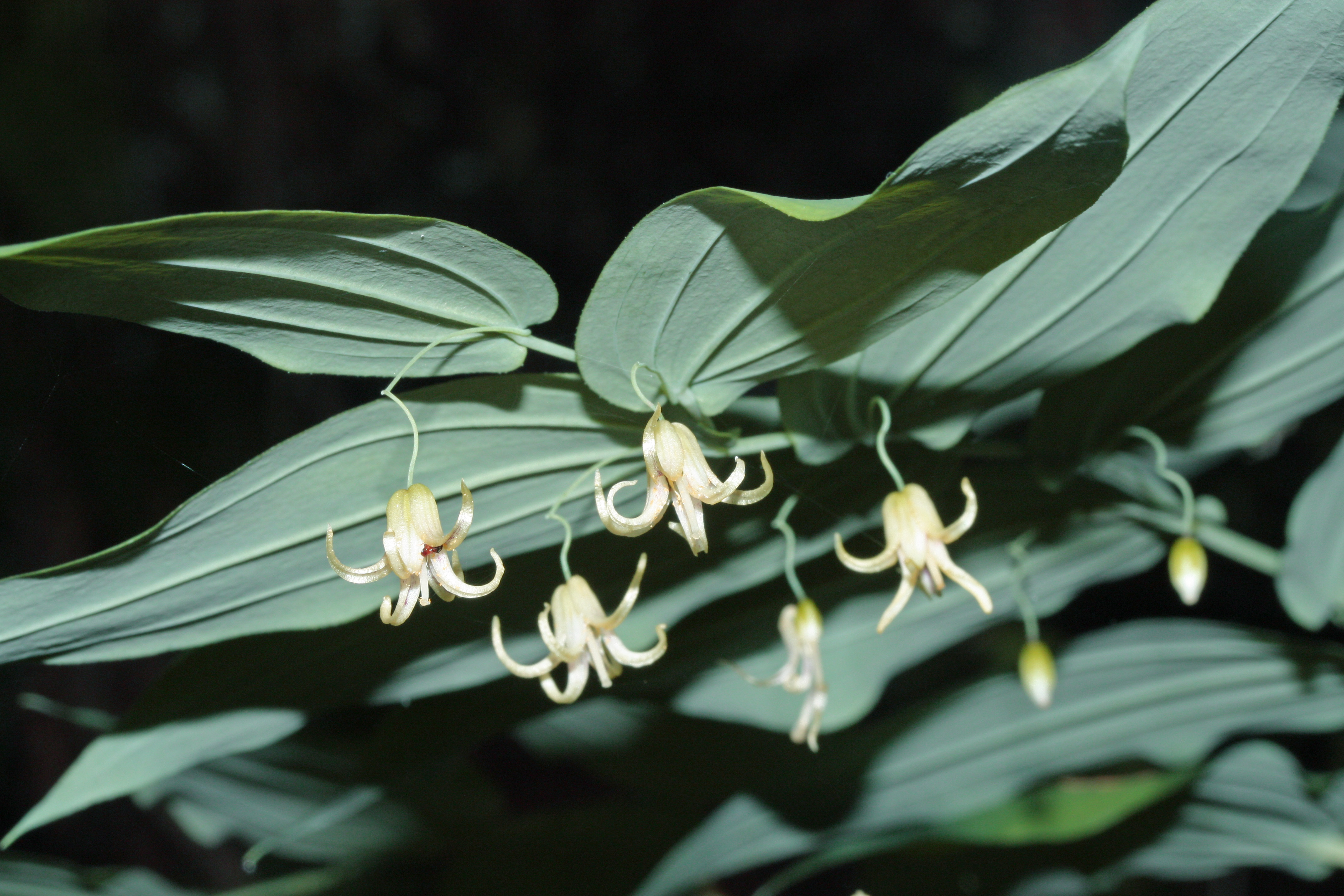 Clasp-leaf Twisted-stalk, Clasping Twisted-stalk